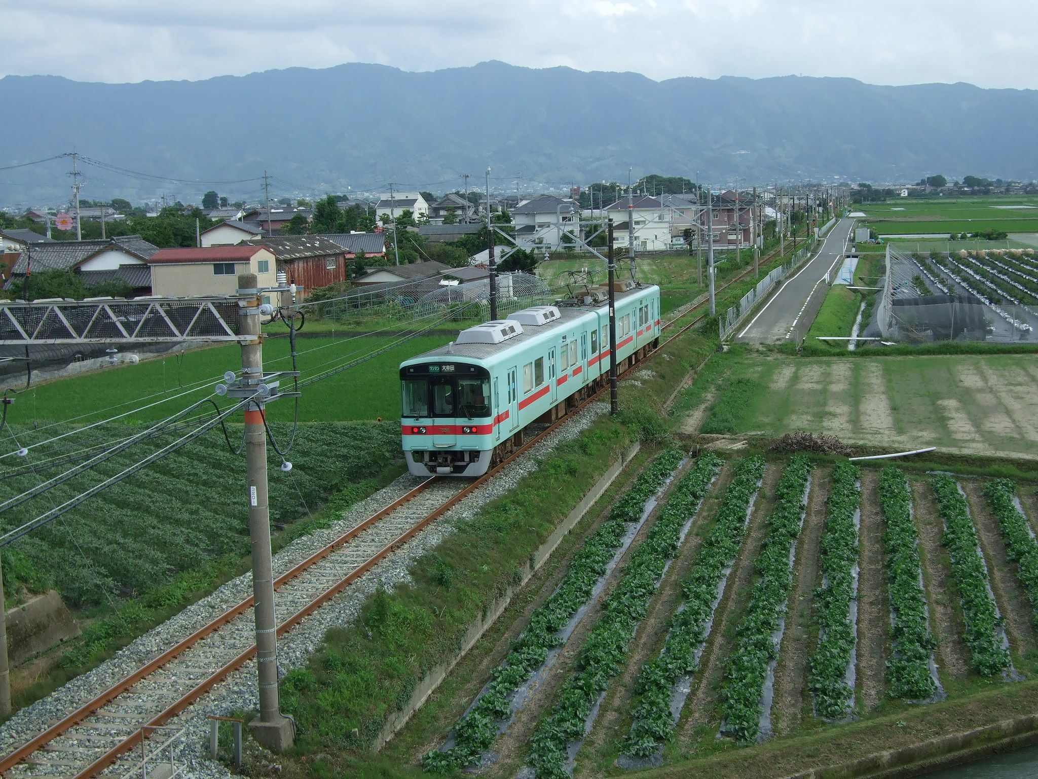 [Nishi Nippon Railroad 7050 series EMU set 7158 on the Amagi Line between Kaneshima and Ōzeki stations